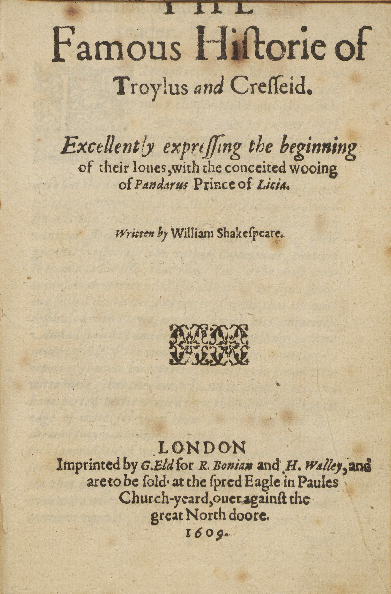 Title page: The famous historie of Troylus and Cresseid, 1609, by William Shakespeare. "London: Imprinted by G. Eld for R. Bonian and H. Walley, and are to be sold at the spred Eagle in Paules Church-yeard, ouer against the great north doore." Original is slightly cut off at top. Full scan of book is available: STC 22332, Houghton Library, Harvard University